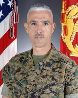 Description: SgtMaj Jose L. Santiago, USMC Source